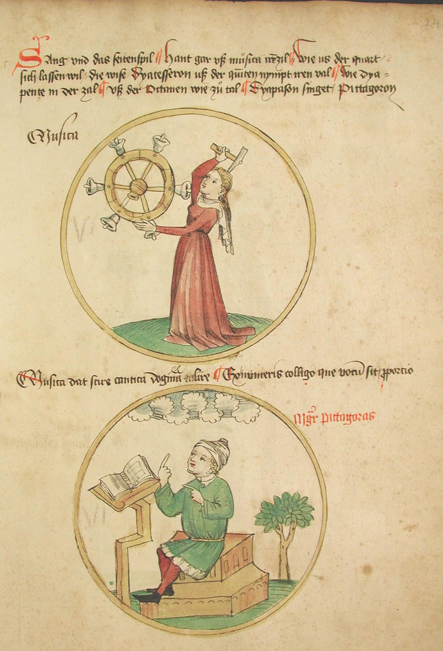 The Seven liberal arts. Music and Pythagoras.